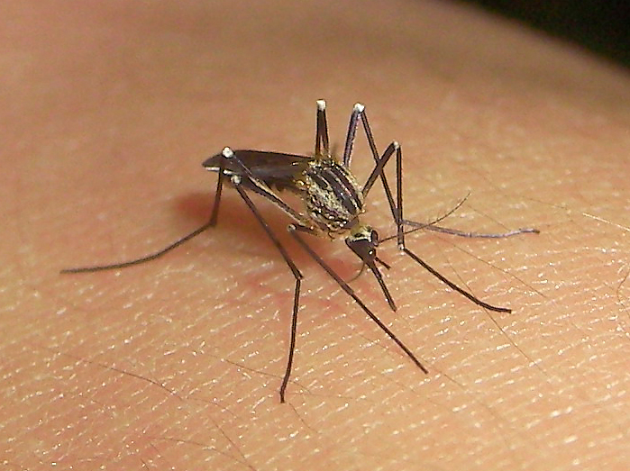 Mosquito: Aedes sp.